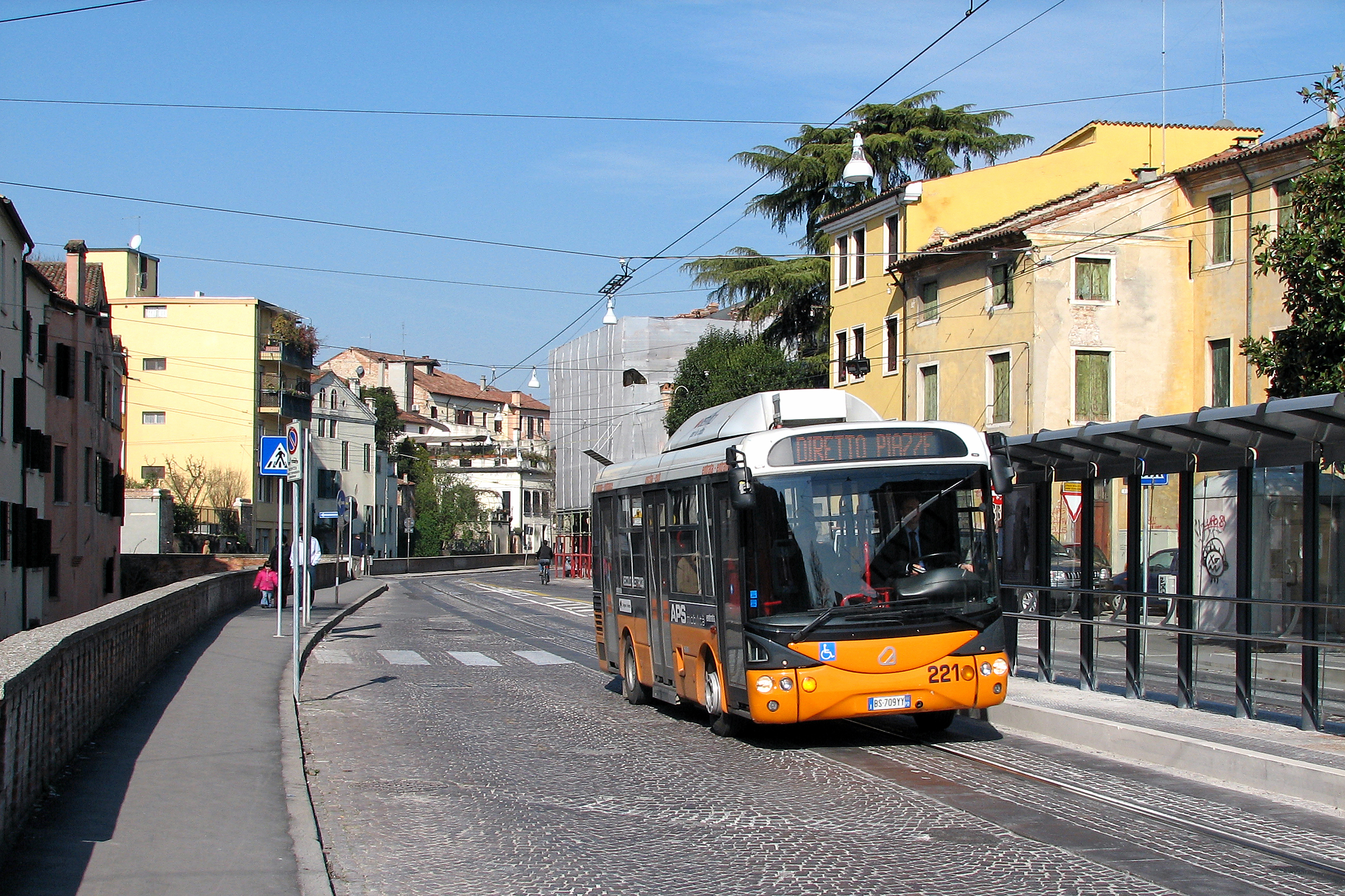 Car 221, in service on route Diretto Piazze, photographed in Riviera Businello.